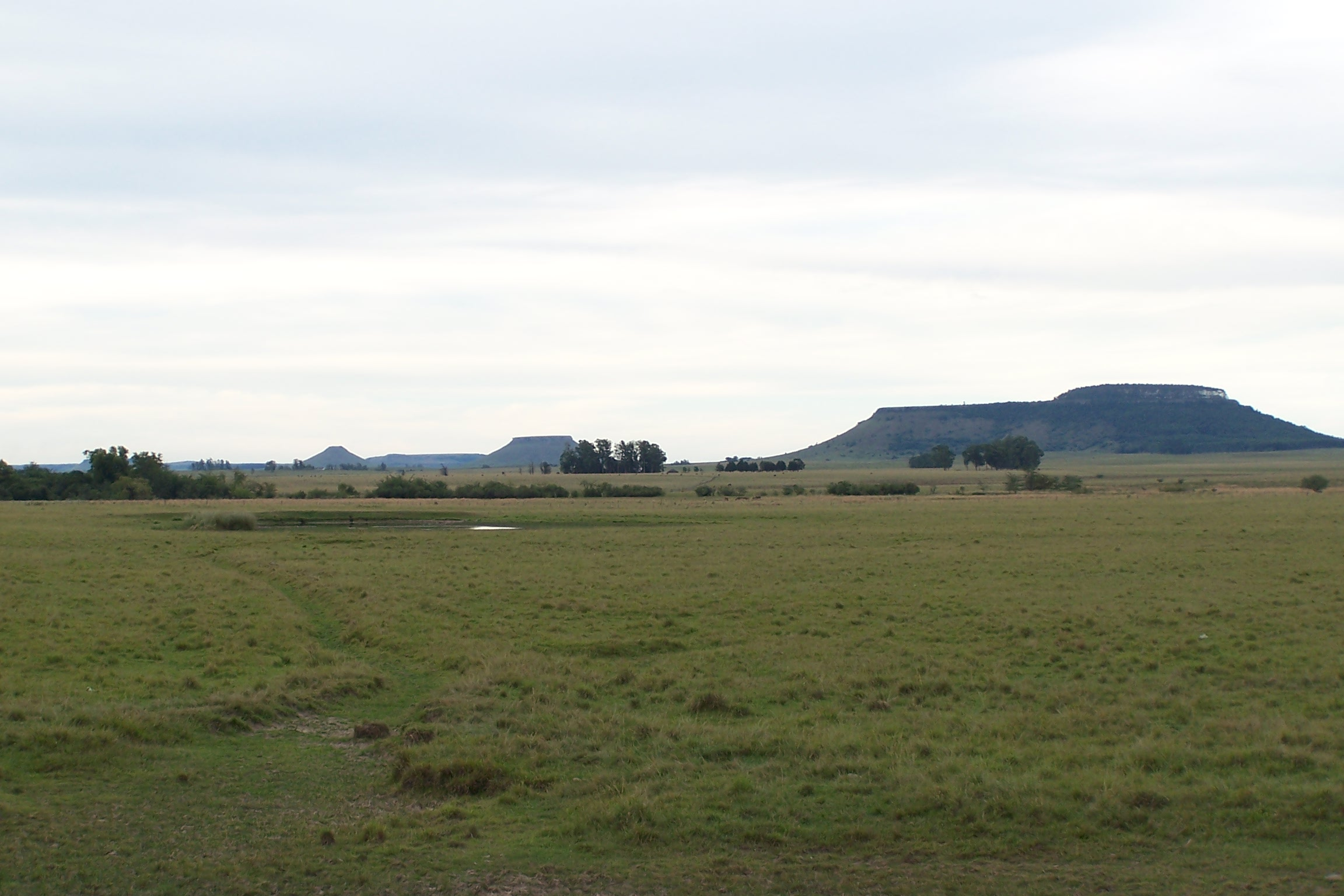 Henry Hays, February 2004